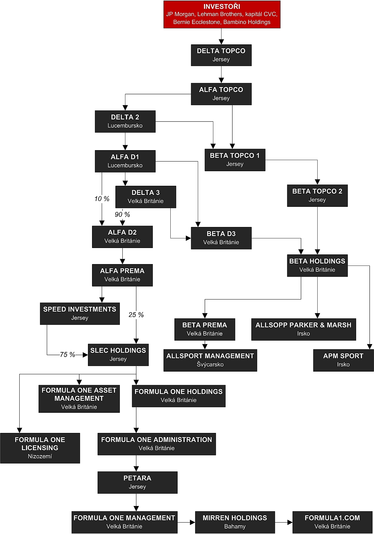 Formula One organization chart.